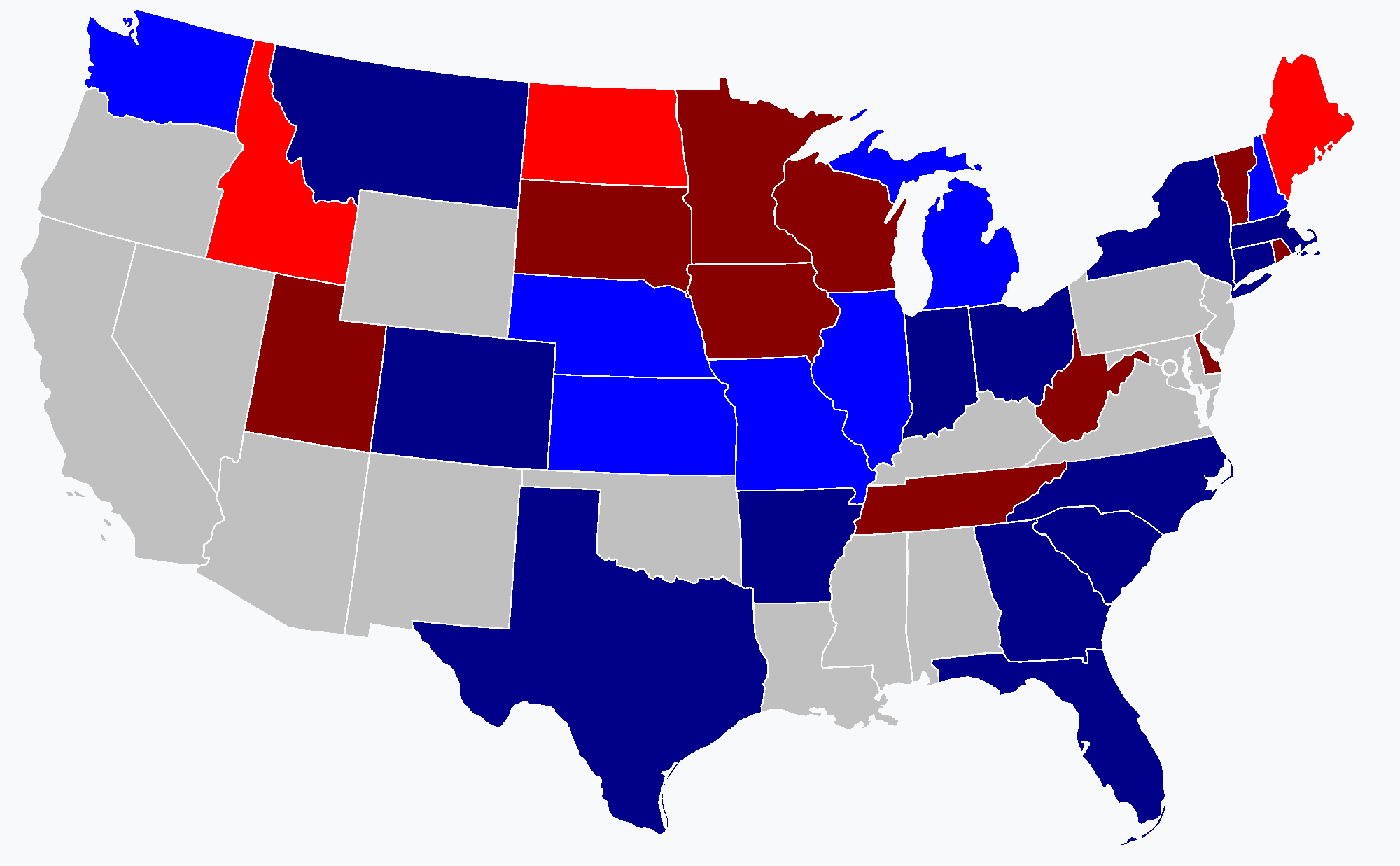 A map showing the results of the 1912 United States Gubernatorial elections